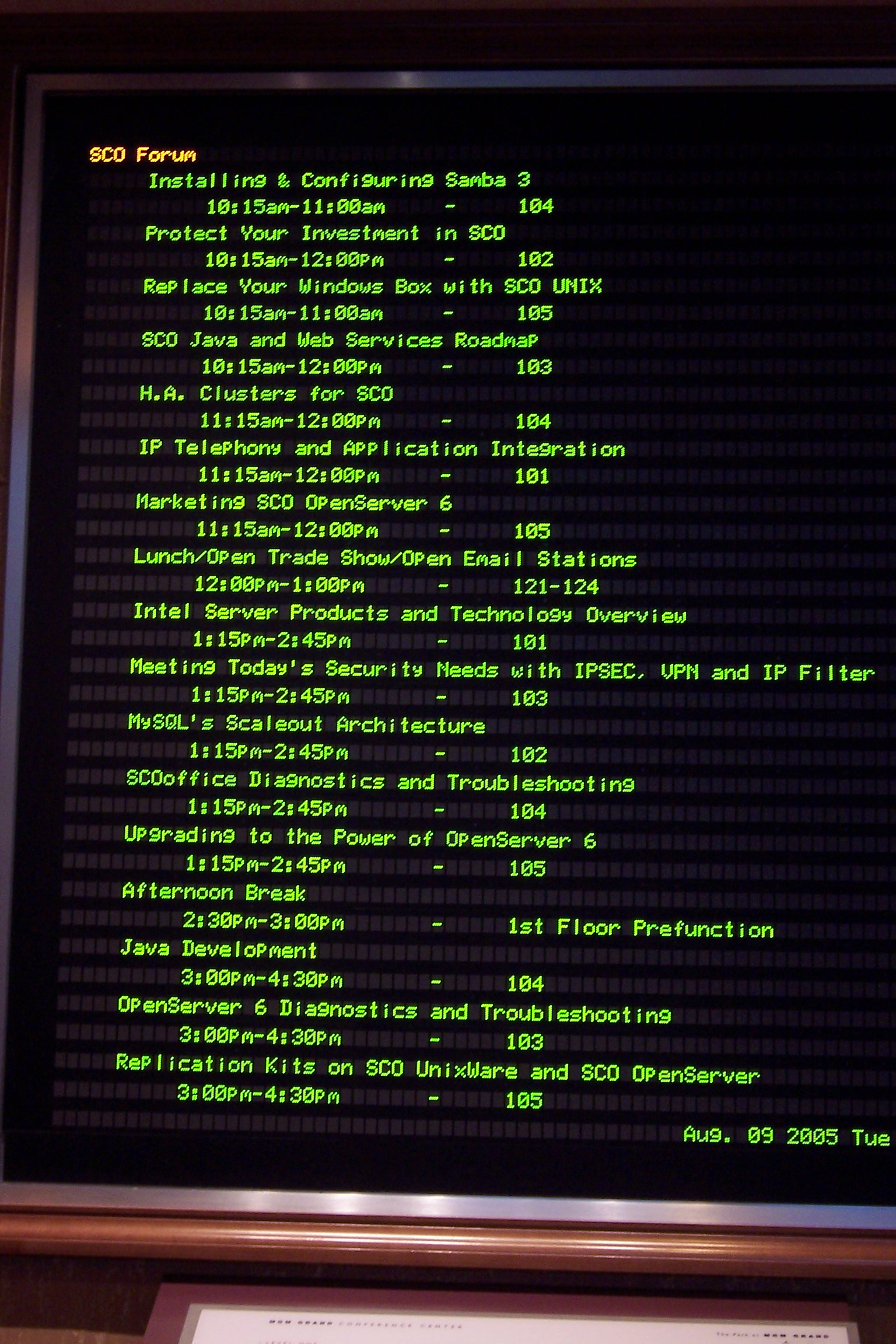 A list of some of the breakout sessions during the Tuesday of SCO Forum 2005 at the MGM Grand in Las Vegas, Nevada.